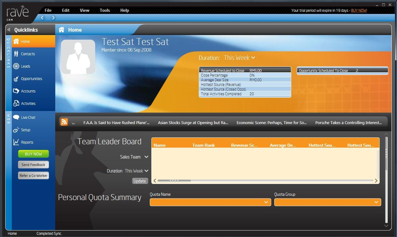 Rave CRM user interface